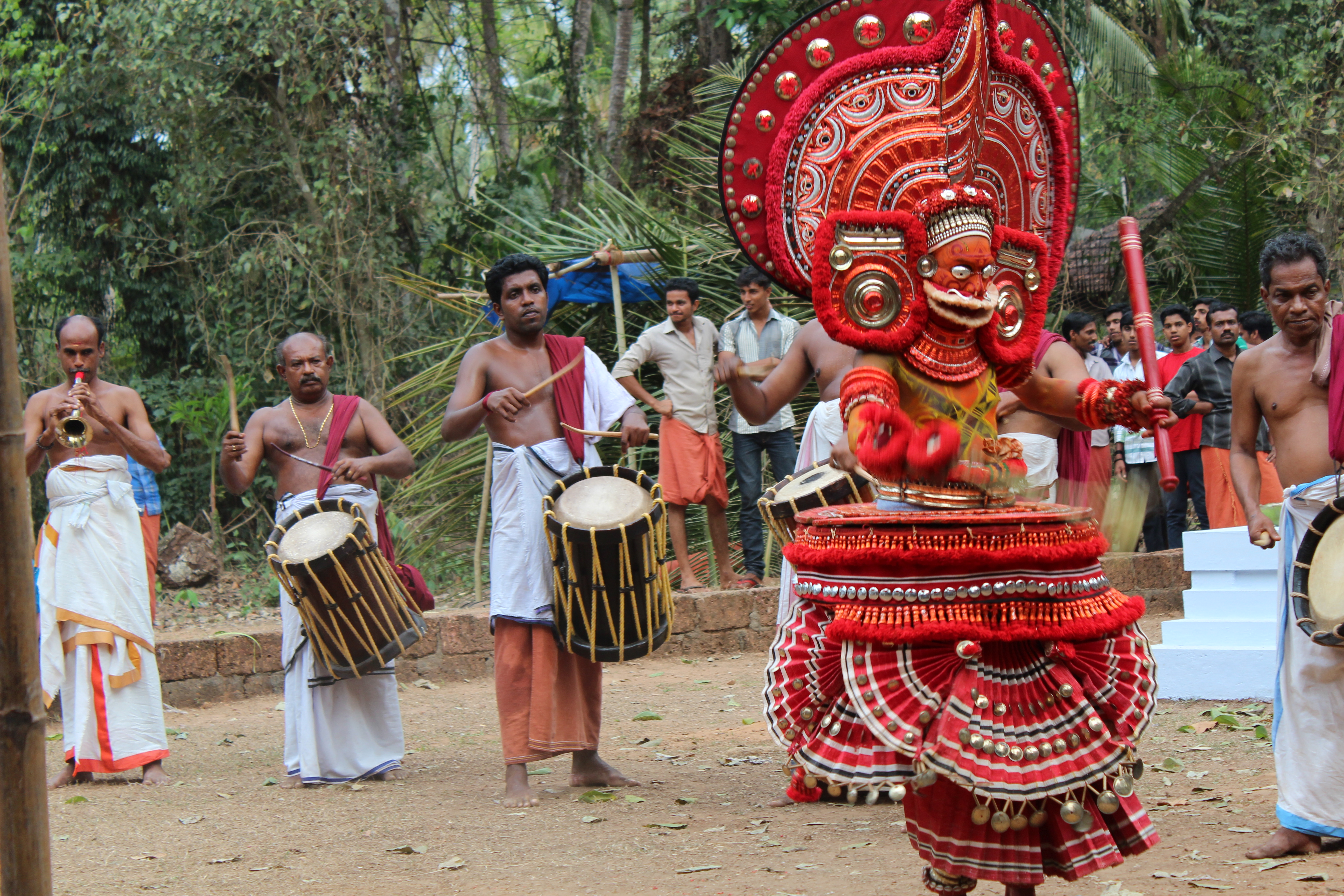 sasthappan theyyam